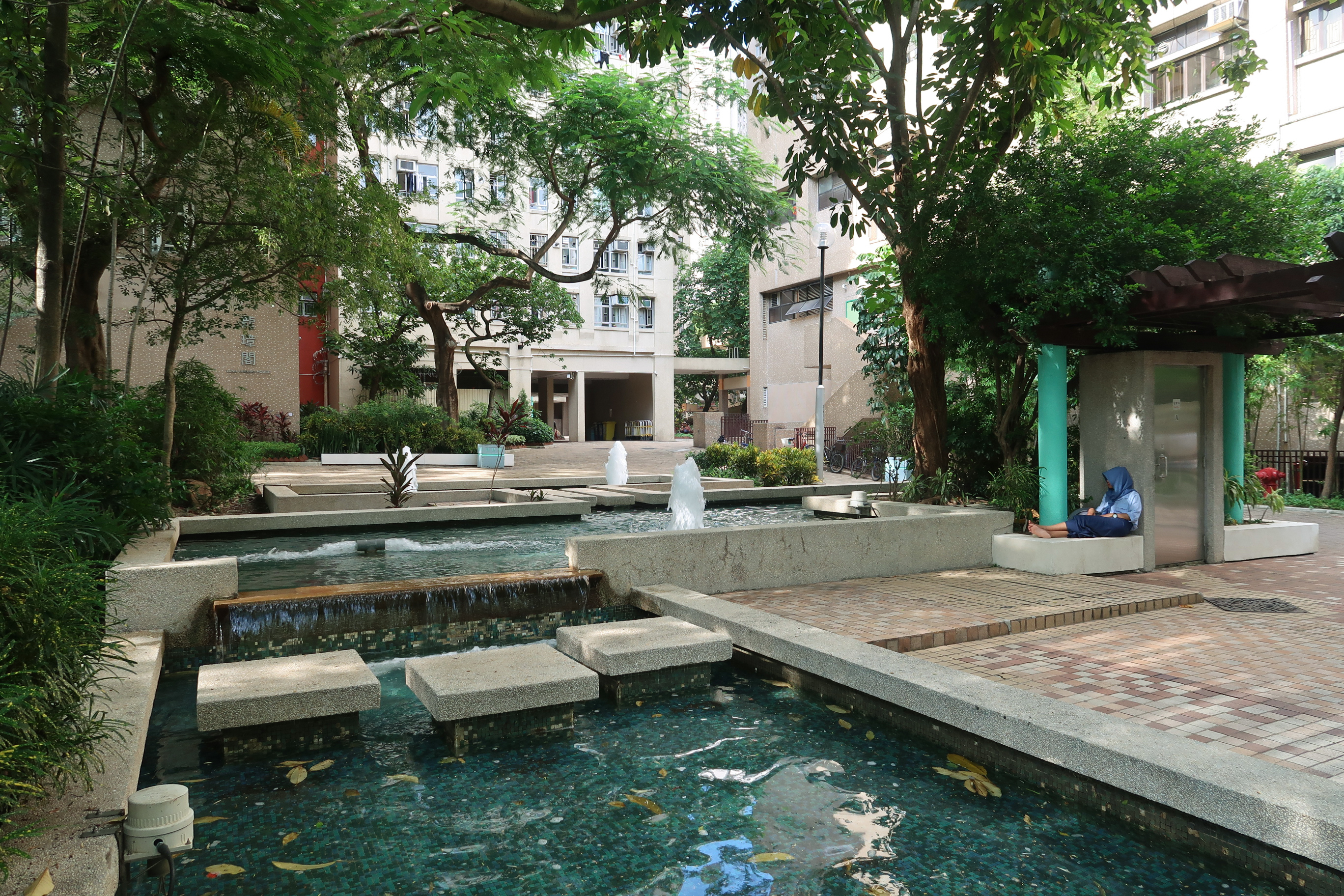 Lung Poon Court Water feature